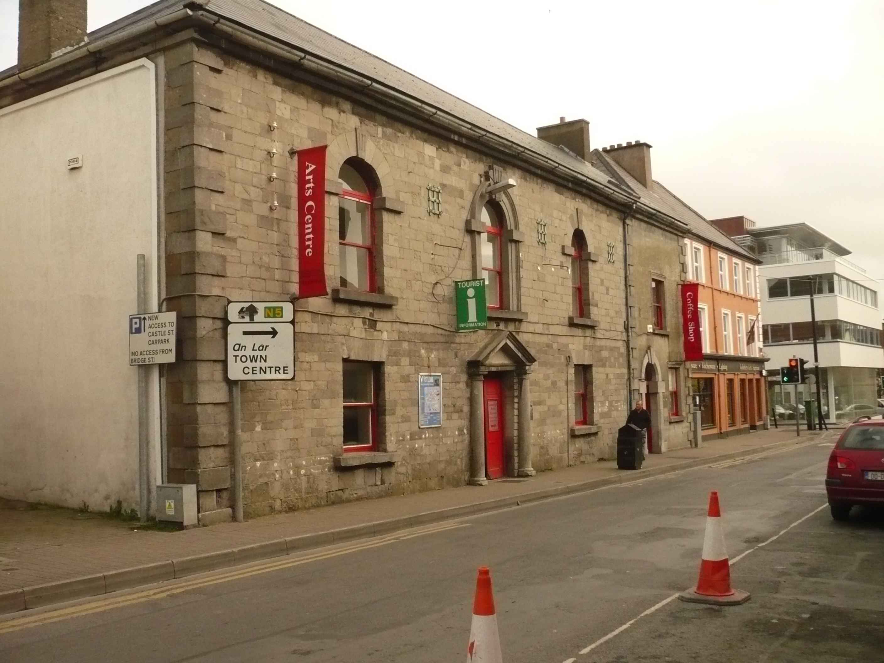 The Linenhall Arts Centre in 2009.